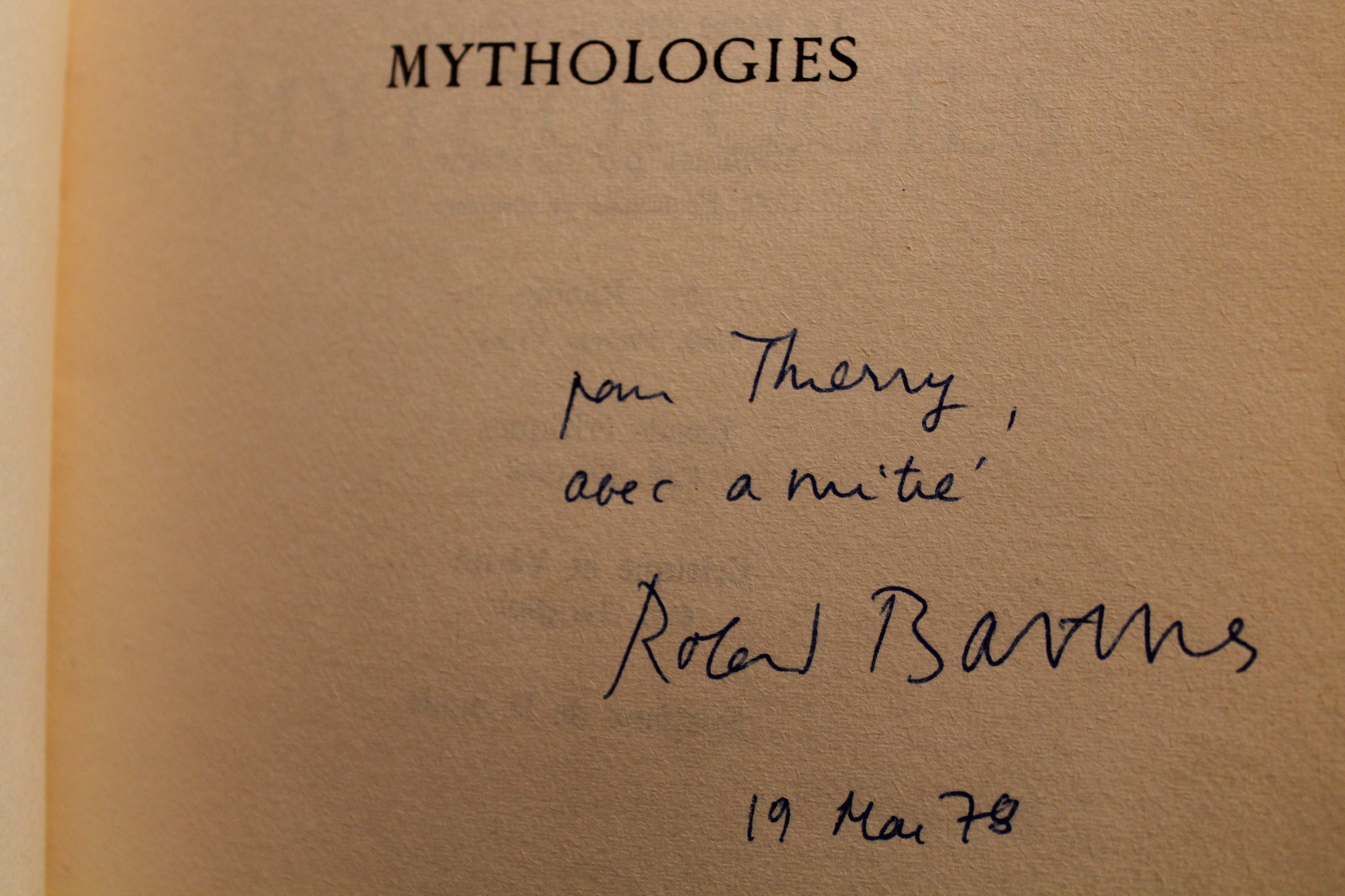 Signature of Roland Barthes on Mythologies, Paris, Editions du Seuil, 1957.